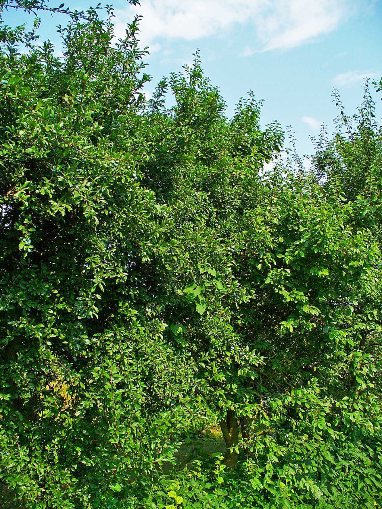 Prunus spinosa, Rosaceae, Blackthorn, Sloe, habitus.